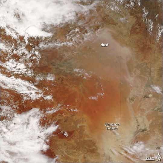 Satellite view of a dust storm over Simpson Desert, Australia. The Moderate Resolution Imaging Spectroradiometer (MODIS) on NASA’s Terra satellite captured this image.